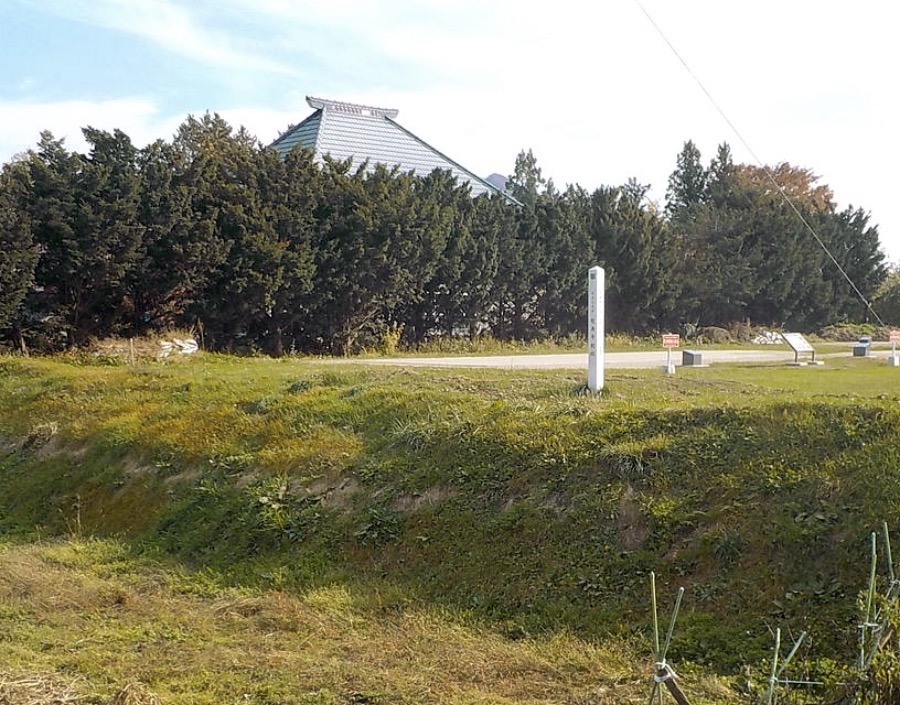 Shōjujidate caste ruins in Nanbu town, Sannohe District, Aomori, Japan.